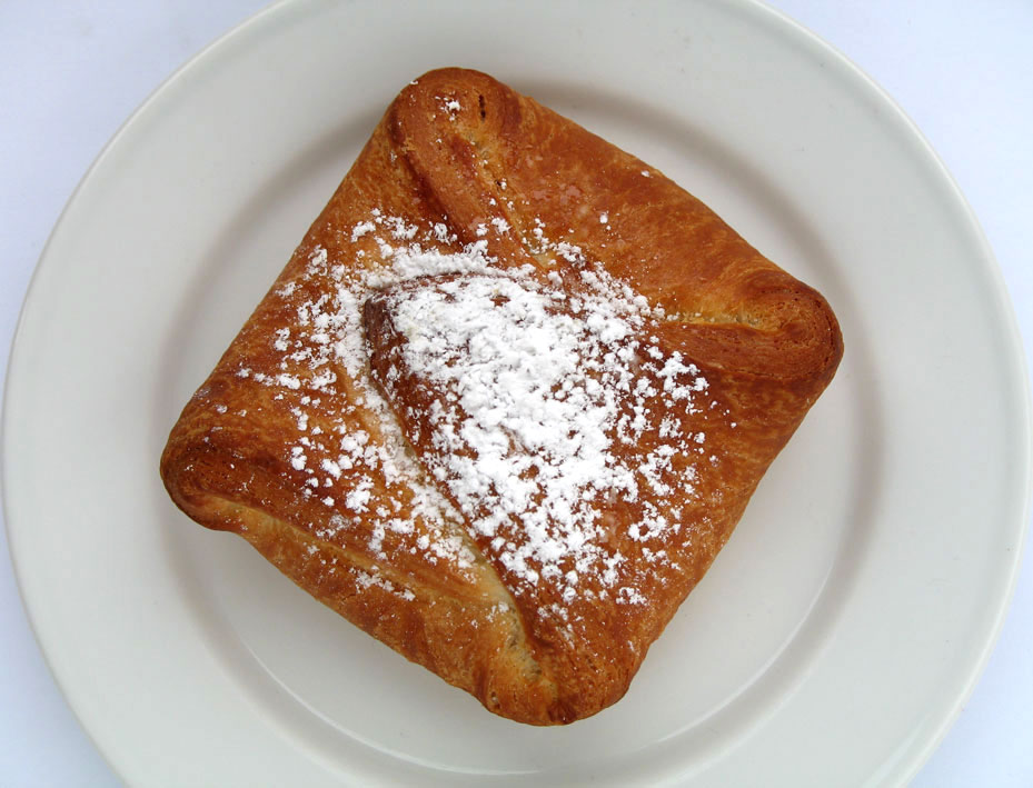 Description = Kolatsche (Topfenkolatsche) Source = photo taken by Kobako Date = Dec. 2005 Author = Kobako